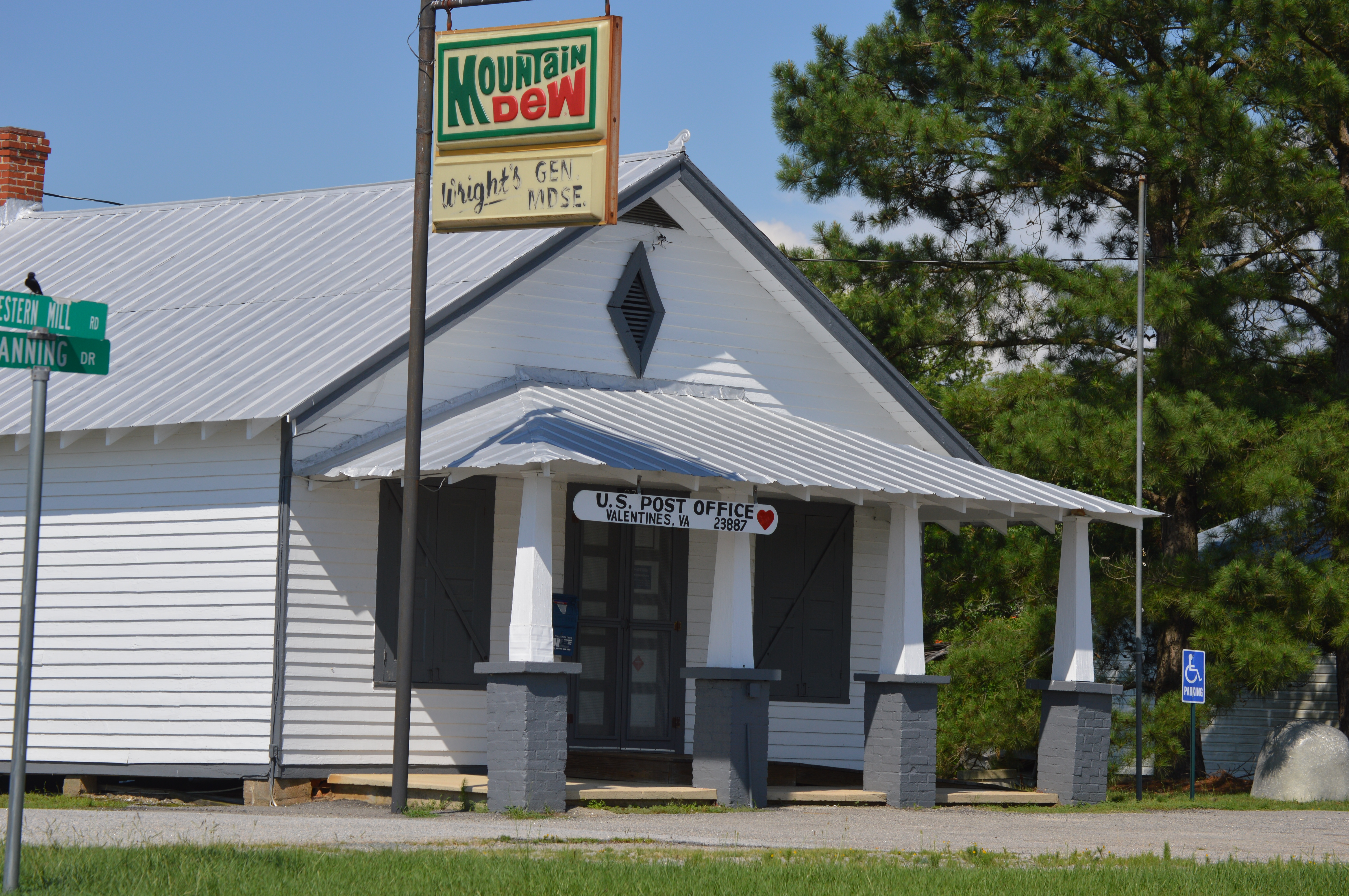 Front of the Valentines post office, located on Western Mill Road at Valentines in Brunswick County, Virginia, United States.